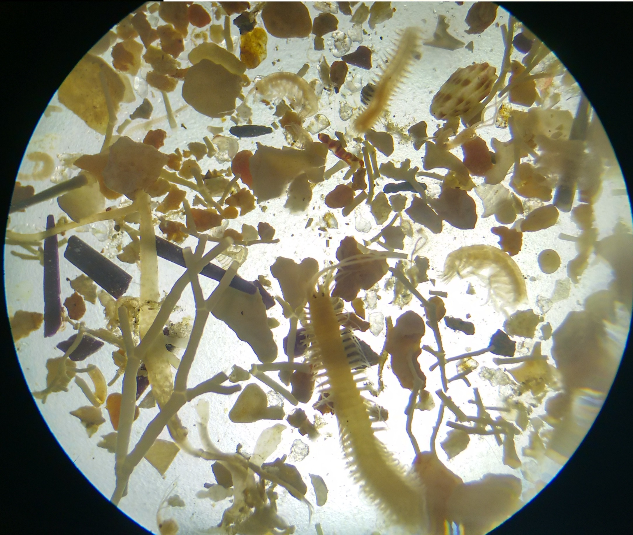 sample of reef benthic enviroment